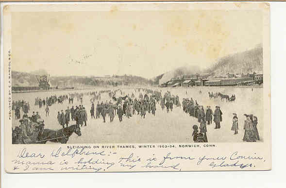 Postcard: People on frozen Thames River in Norwich, Connecticut, winter of 1903-1904, postmark 1906 Description: "1906 postally used postcard pub by E.A. Bardol & Co., showing Sleighing on the River Thames in winter of 1903-04 in Norwich, CT."